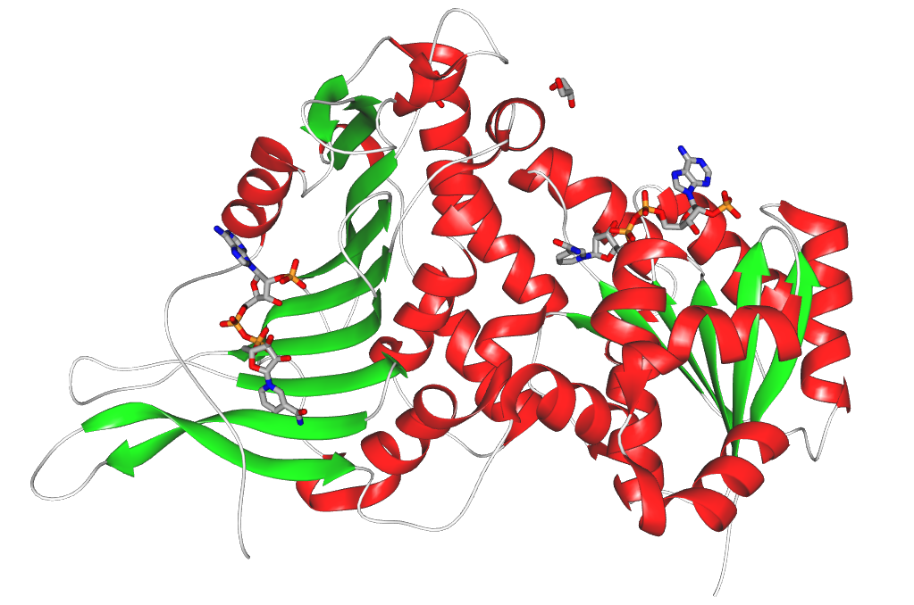 glucos 6-phosphate dehydrogenase